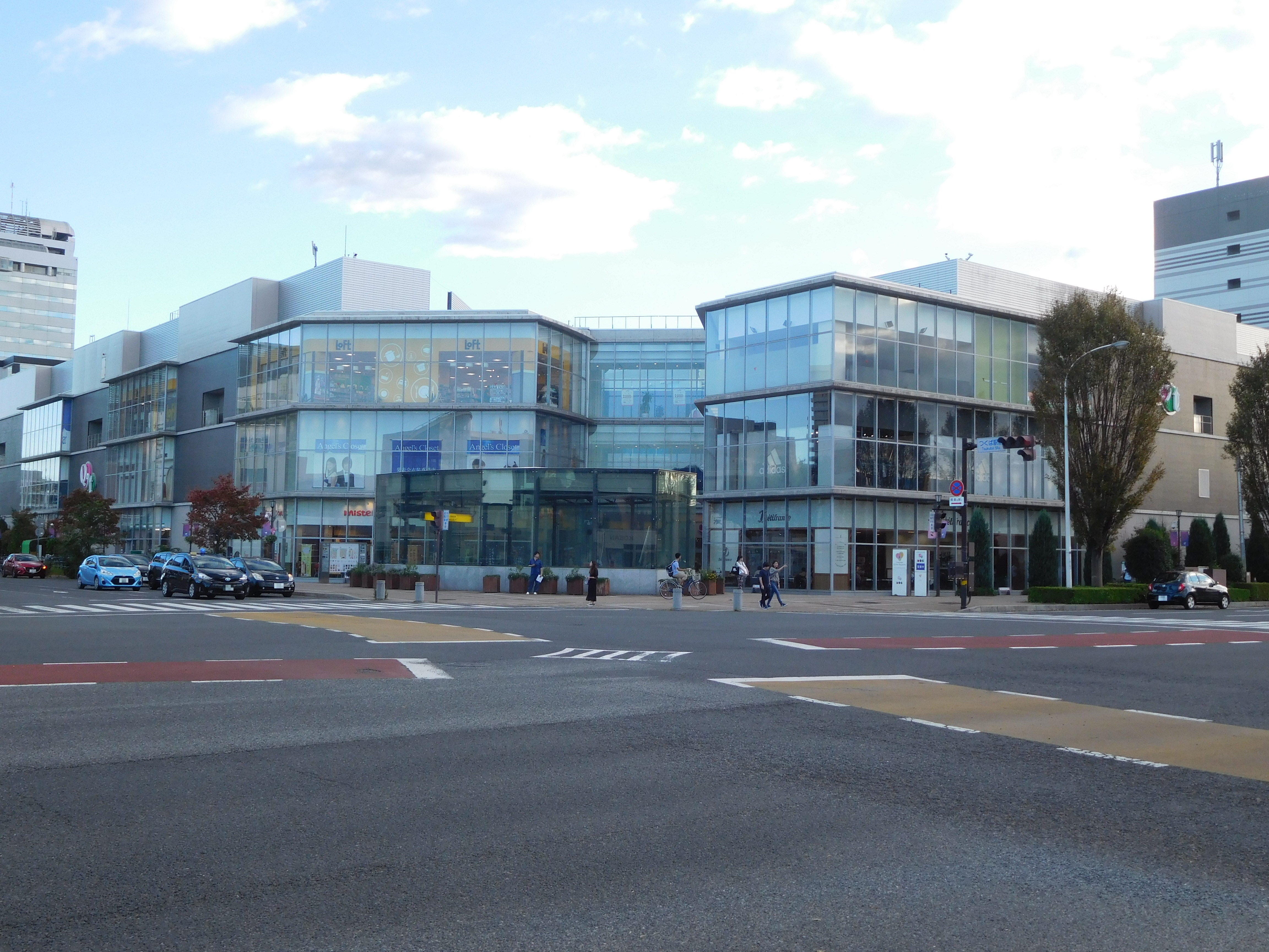 This is Tsukuba CREO Square Q't, a shopping mall in Tsukuba, Ibaraki, Japan.